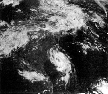 This image shows Hurricane Charley off the coast of South Carolina.